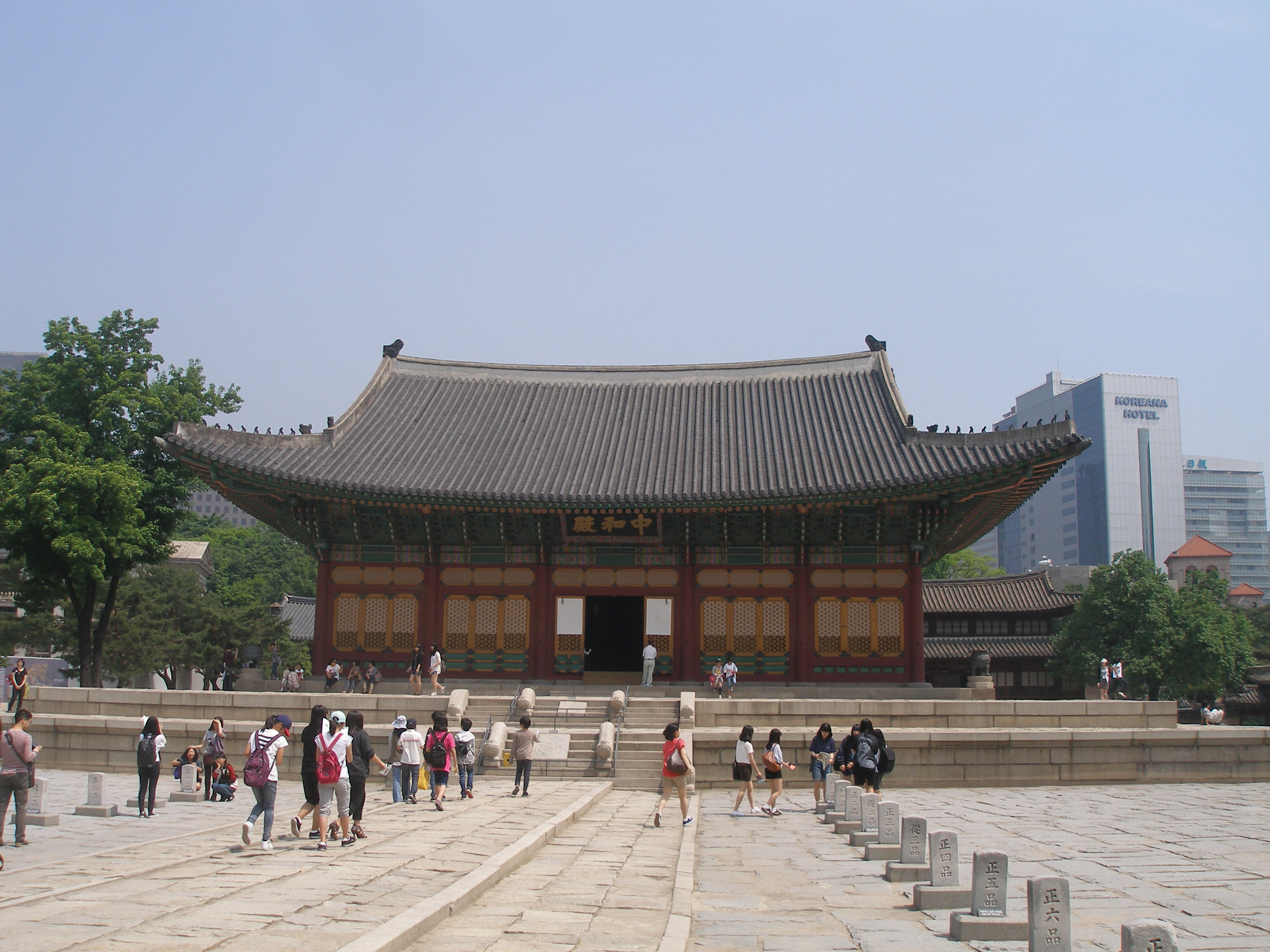 Outcommings of Wikipedia takes Jeongdong 위키백과:위키백과, 정동을 찍다에서 찍은 사진 중화전